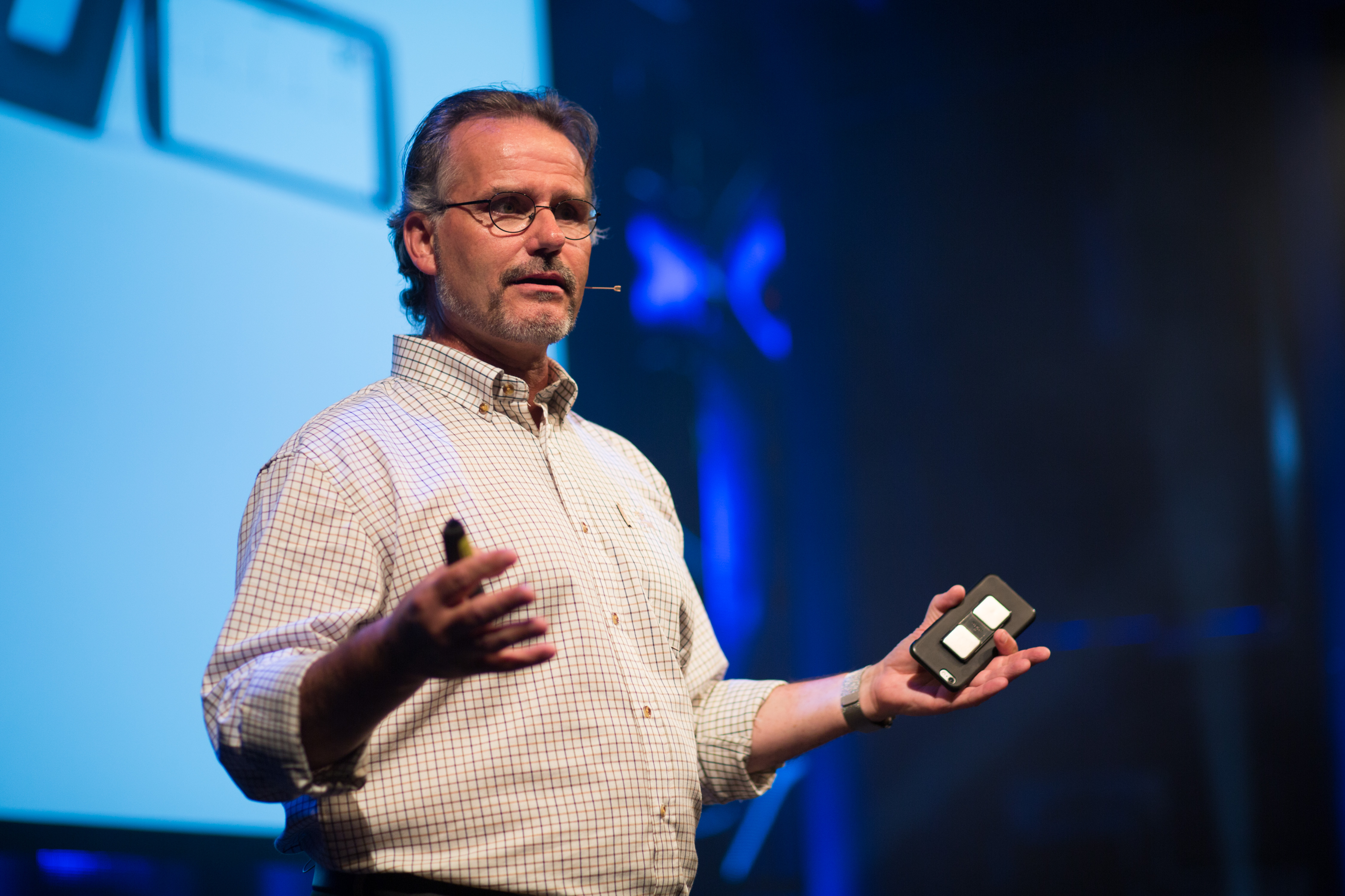 The SingularityU The Netherlands Summit 2016 took place on September 12 & 13 in Amsterdam, The Netherlands. The Netherlands Summit was aimed at bringing awareness about exponential technologies and their impact on business and policy. The theme of the summit was "Reality Check - Fast-Forward into our Future". For more information